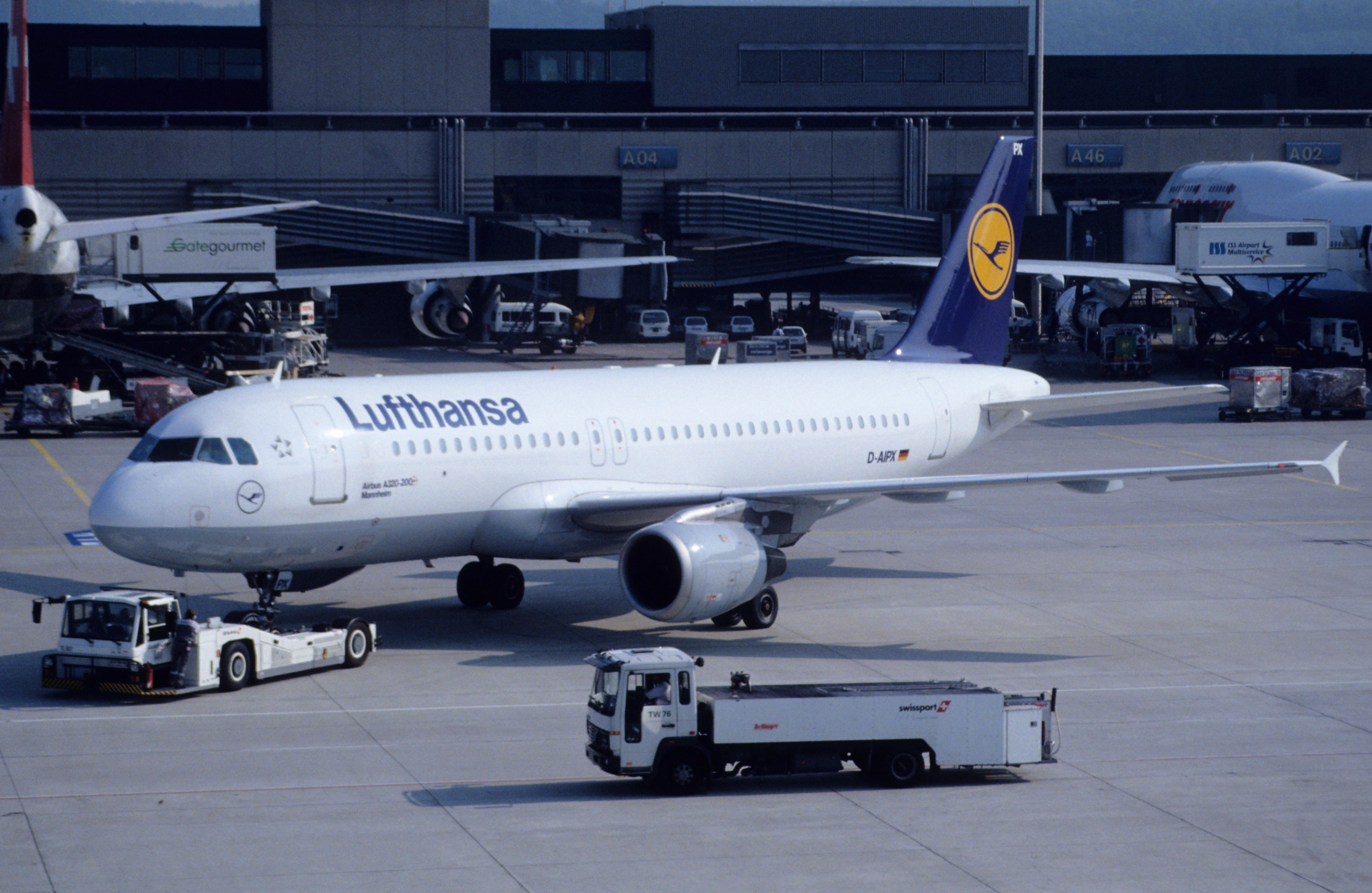 First flight: November 29, 1990...(c/n 147) 06/02/1991 Lufthansa D-AIPX 01/06/2003 Germanwings D-AIPX 22/07/2004 Lufthansa D-AIPX named Mannheim